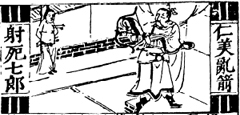 A depiction of a famous story from Generals of the Yang Family: Yang Qilang's death by arrows at the hands of Pan Renmei